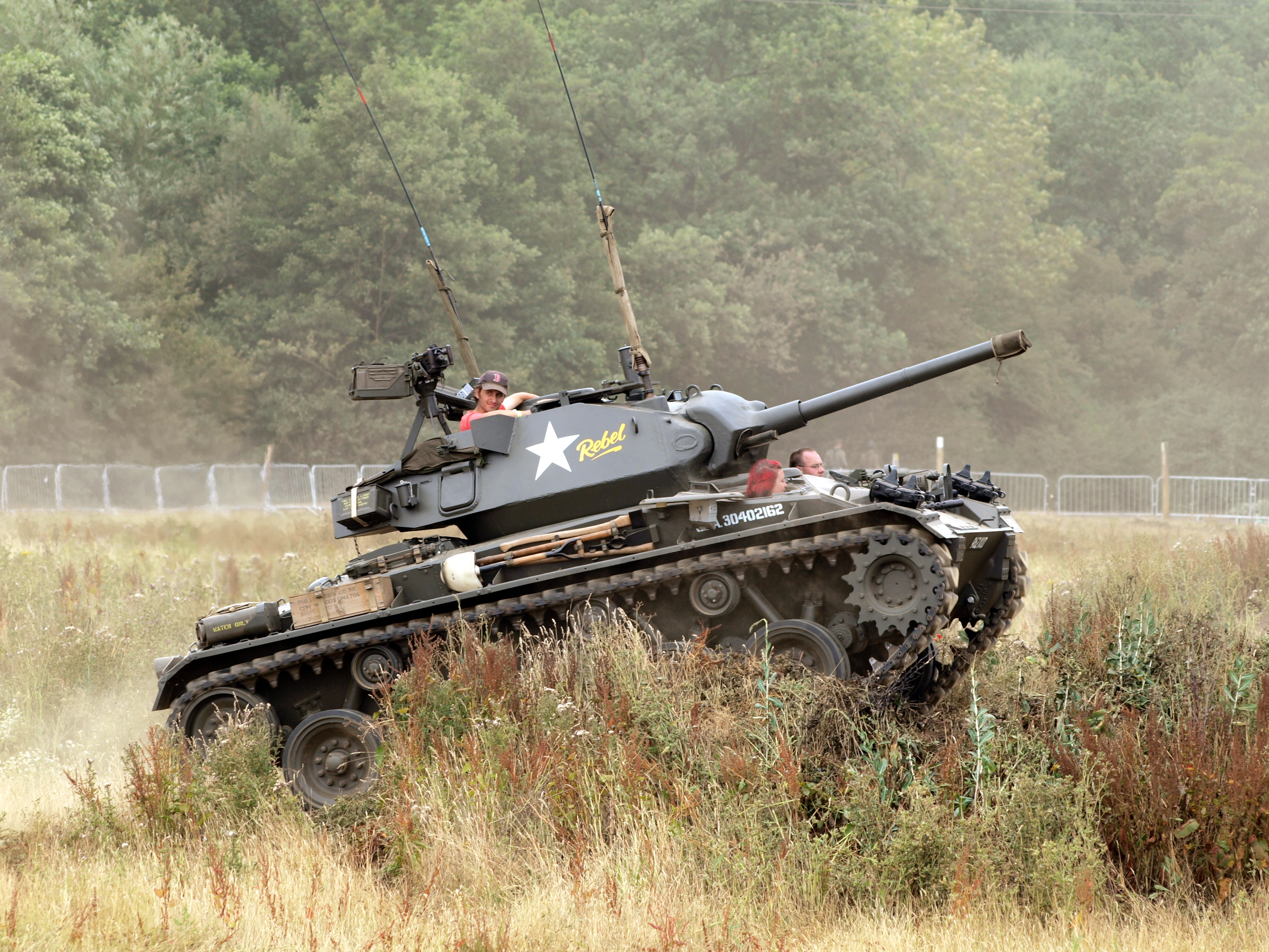 M24 Chaffee named 'Rebel', hoodno USA 30402162